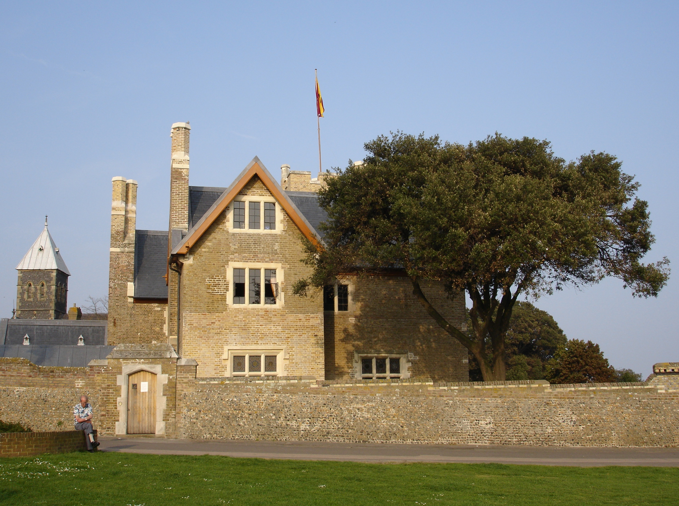 The Grange, Pugin's house in Ramsgate, Kent, south-east England. Turning 90 degrees to the right, one looks straight out over the cliff to the English Channel. Taken 16 April 2007.